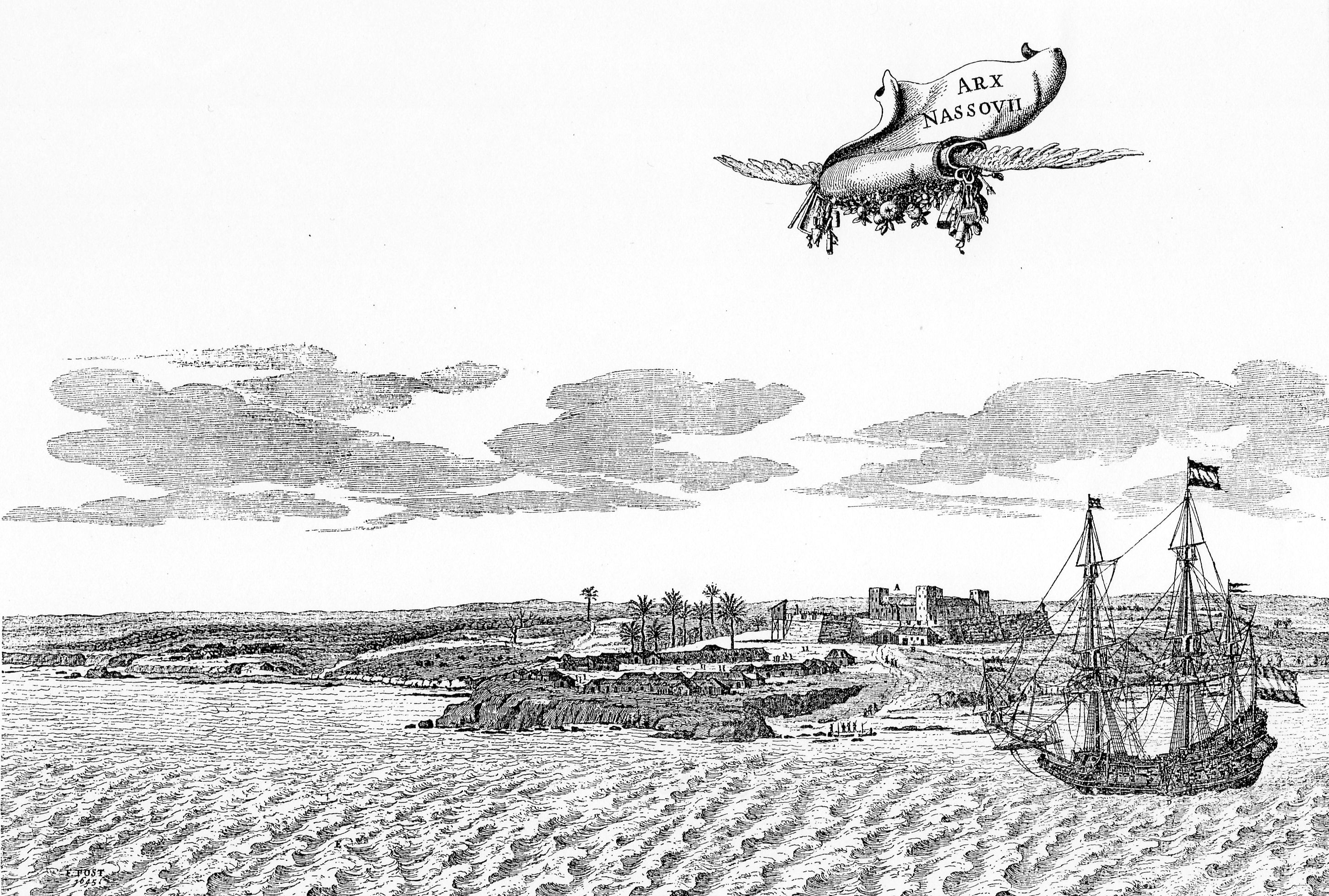 The Fort Nassau at Mouree, 1645.